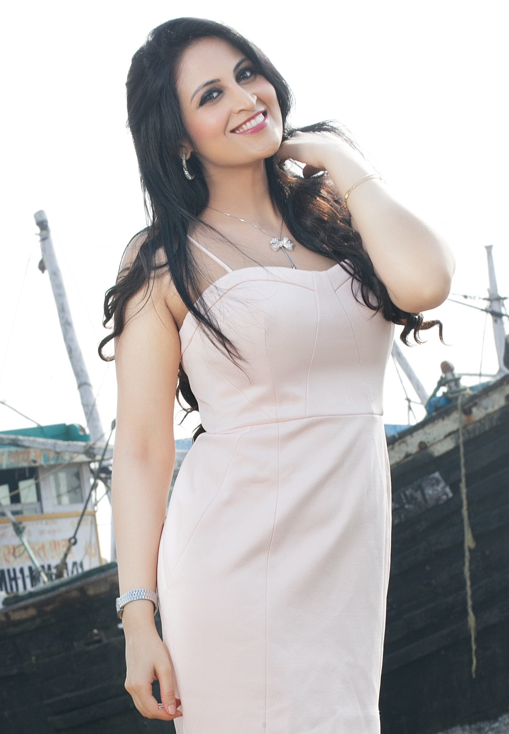 Kadambari Jethwani